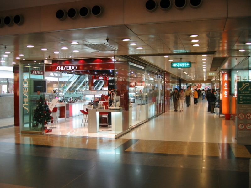 New Town Plaza Phase 1 Level 3 in 2005